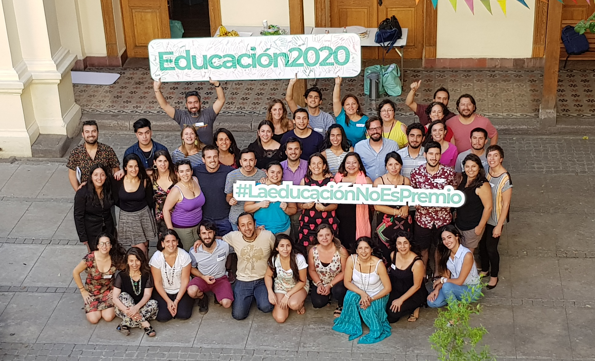 Equipo Fundación 2020.